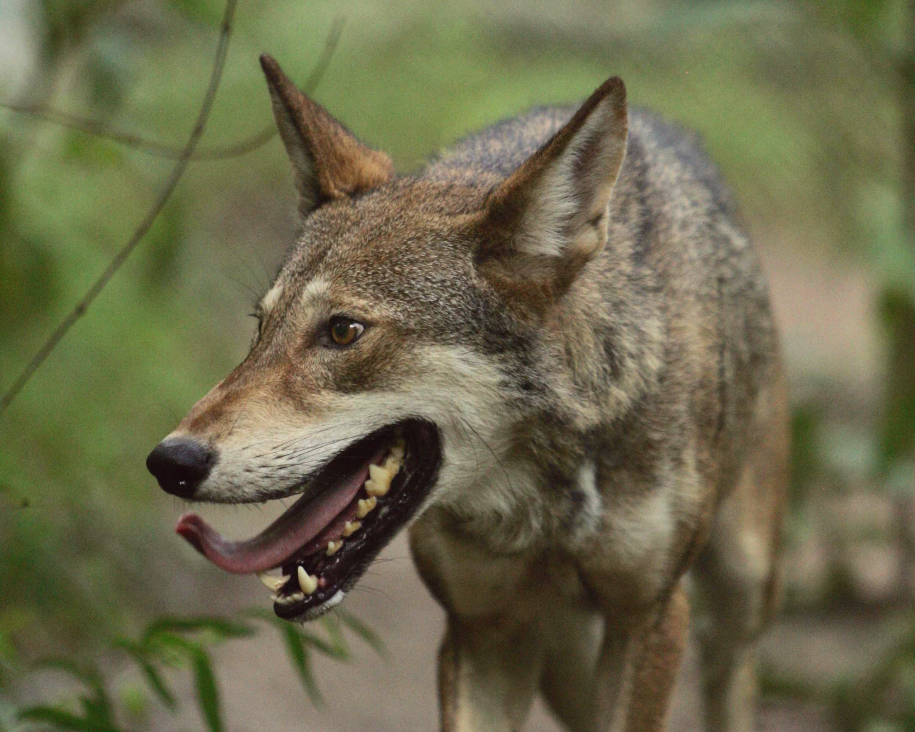 Image title: Wonderful close shot of the beautiful red wolf canis rufus Image from Public domain images website